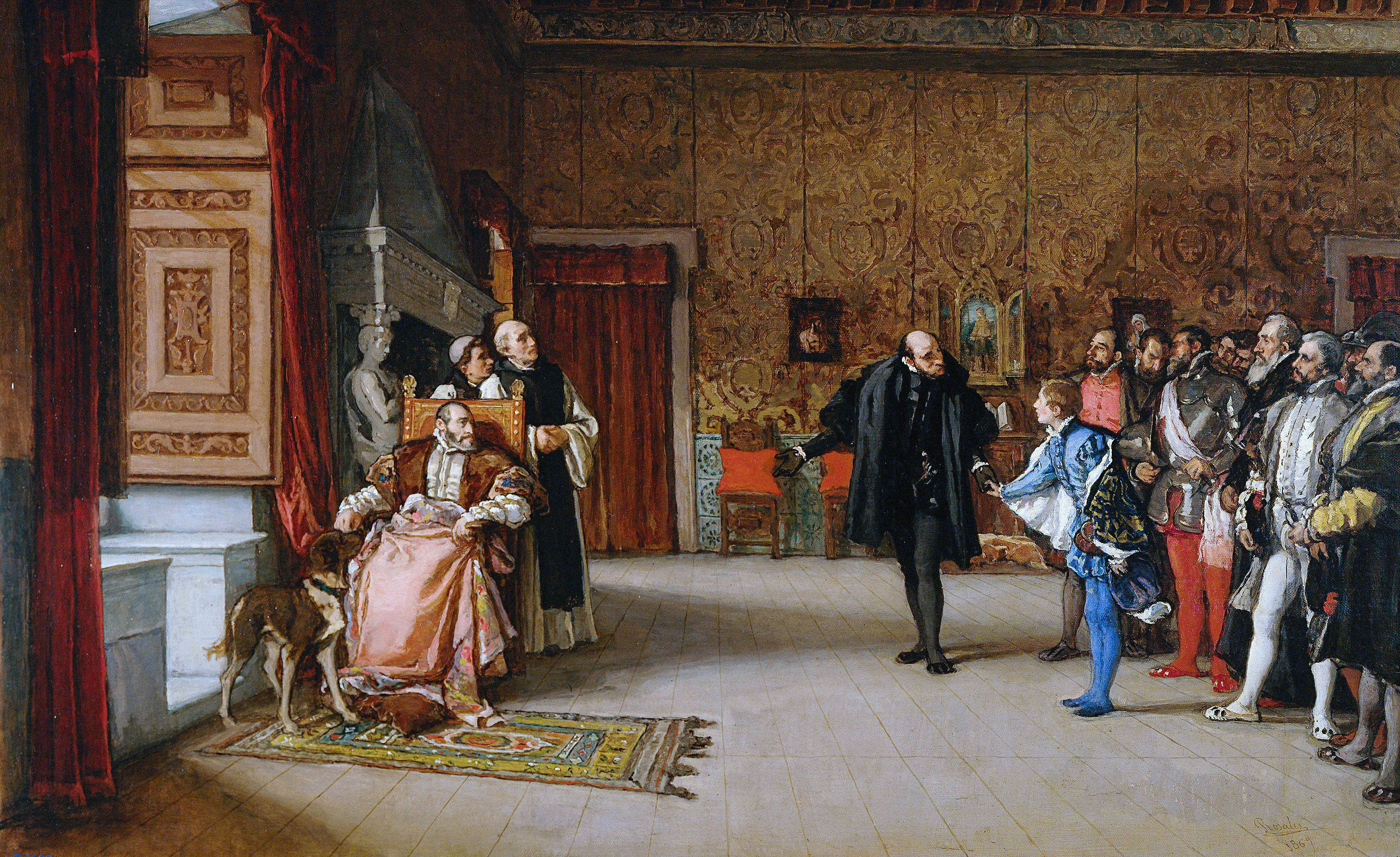 Juan de Austria is presented to his true father, Emperor Charles V by his tutor at the Monastery of Yuste. Until then, the very young Juan knew nothing of his relations.